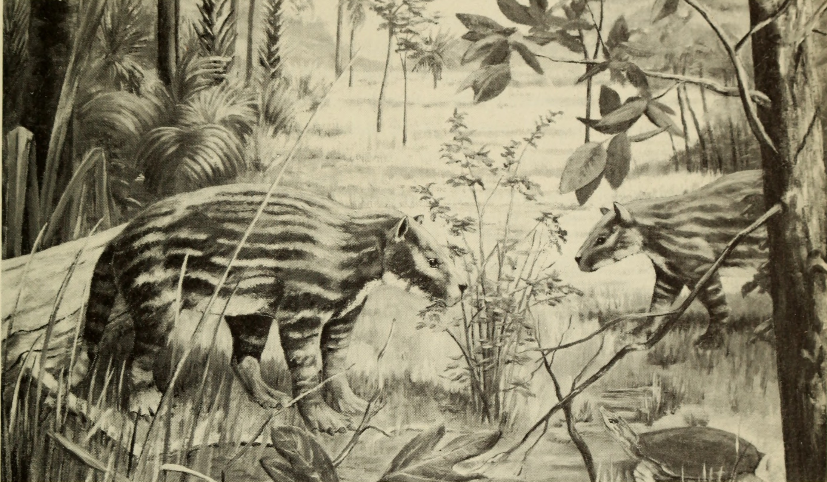 The prehistoric mammal Ectoconus